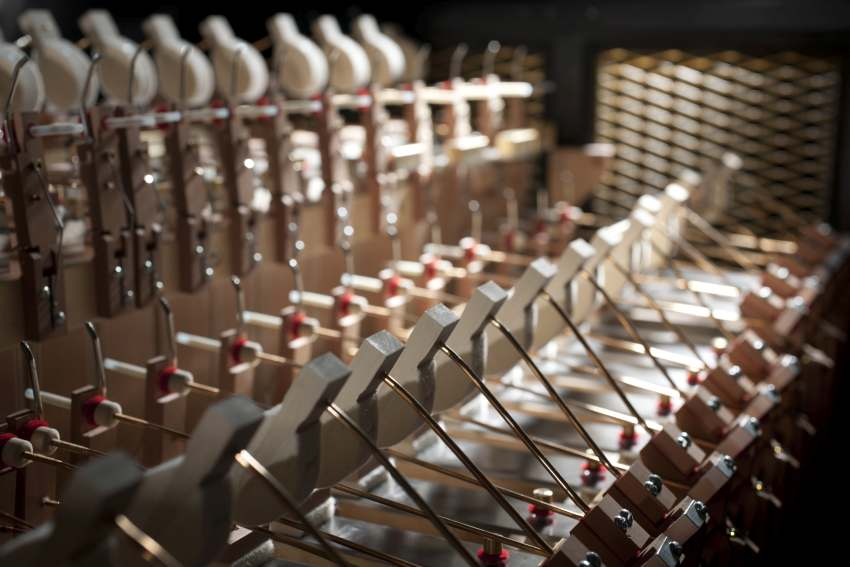 Schiedmayer-Celesta, studio model.